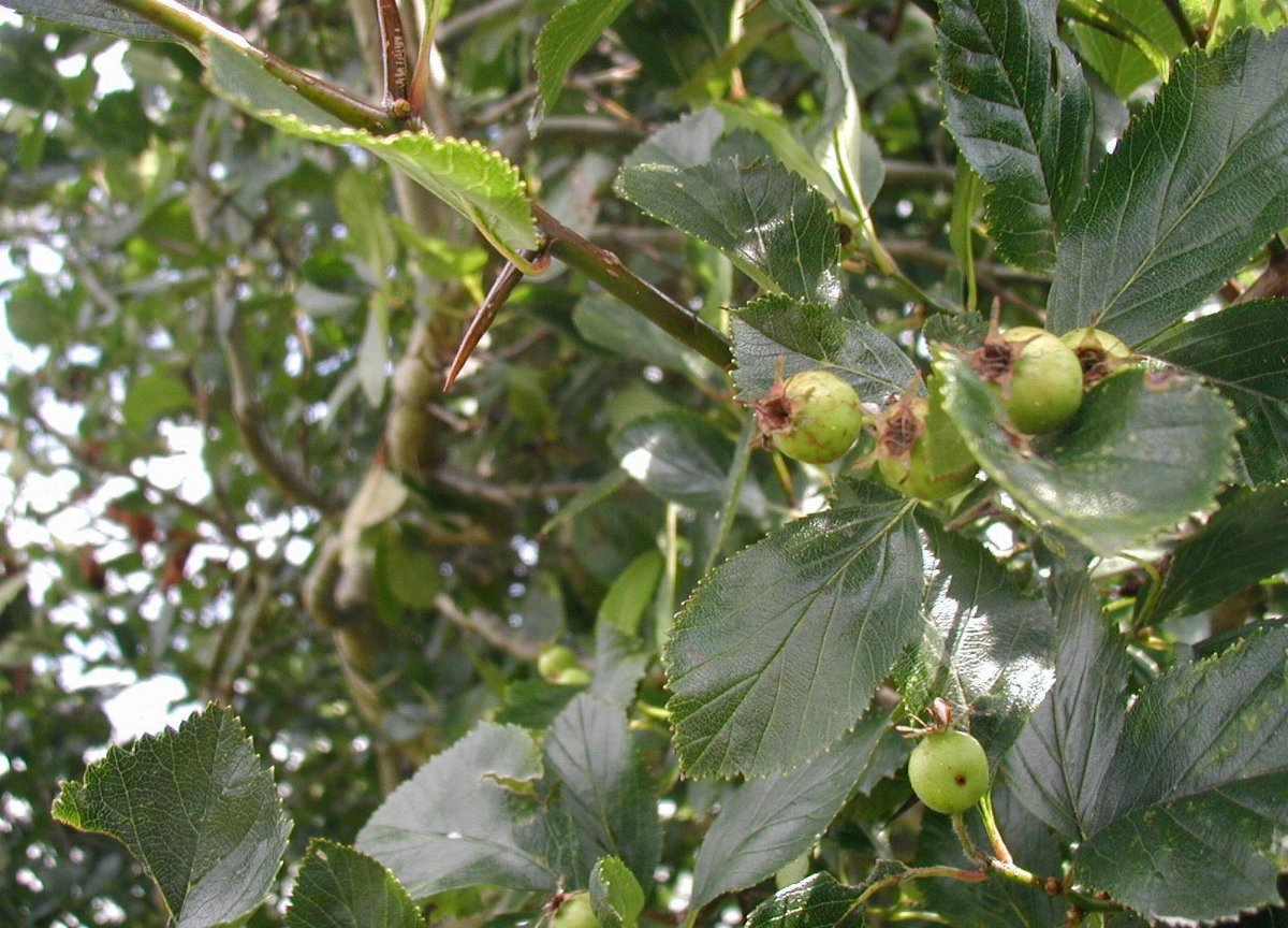 Crataegus crus-galli, fruits, leaves, and thorns.